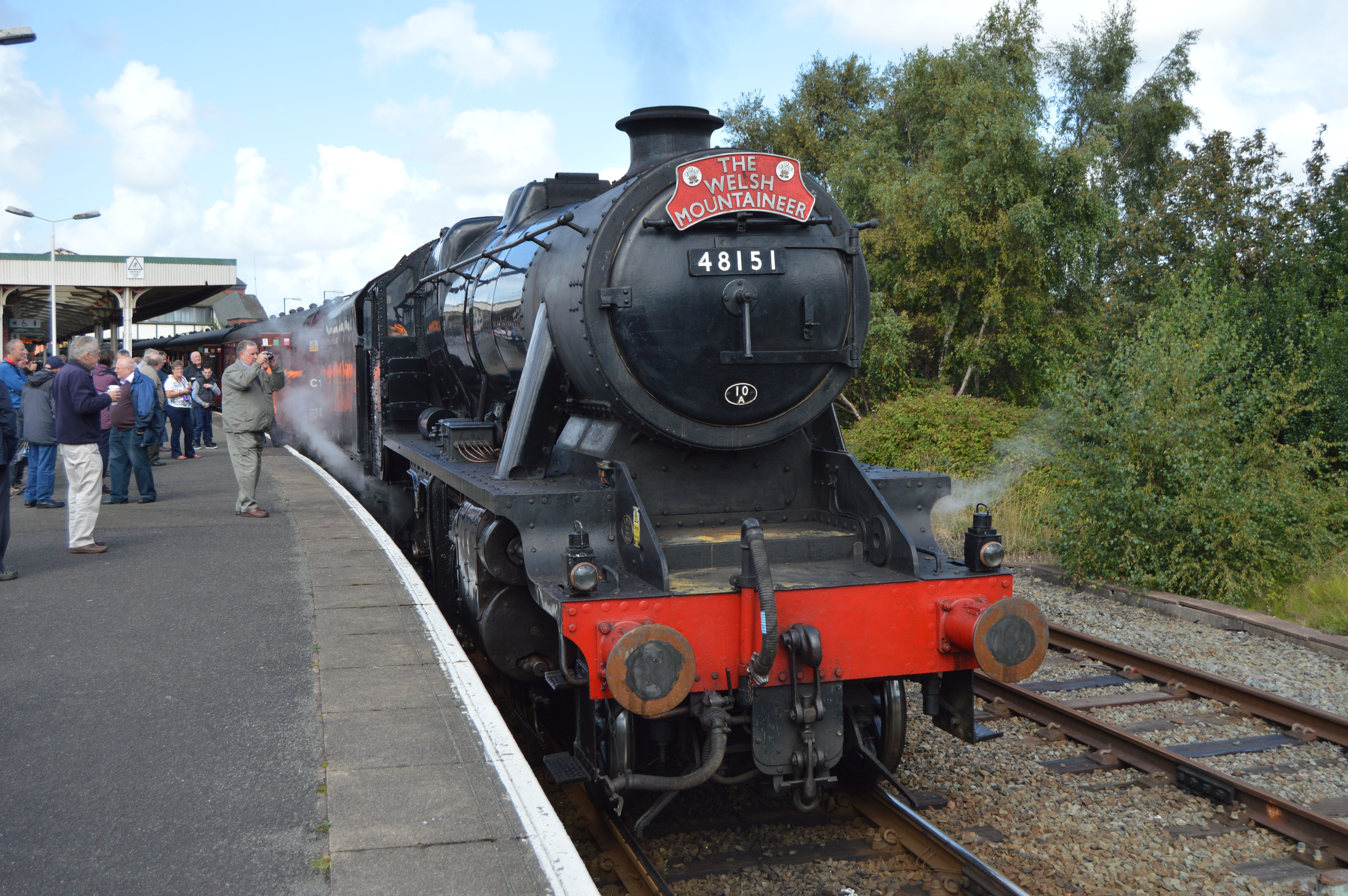 LMS 8F 2-8-0 no 48151 waiting to depart from Llandudno Jcn to Blaenau Ffestiniog with The Welsh Mountaineer on Tue 19th August 2014.